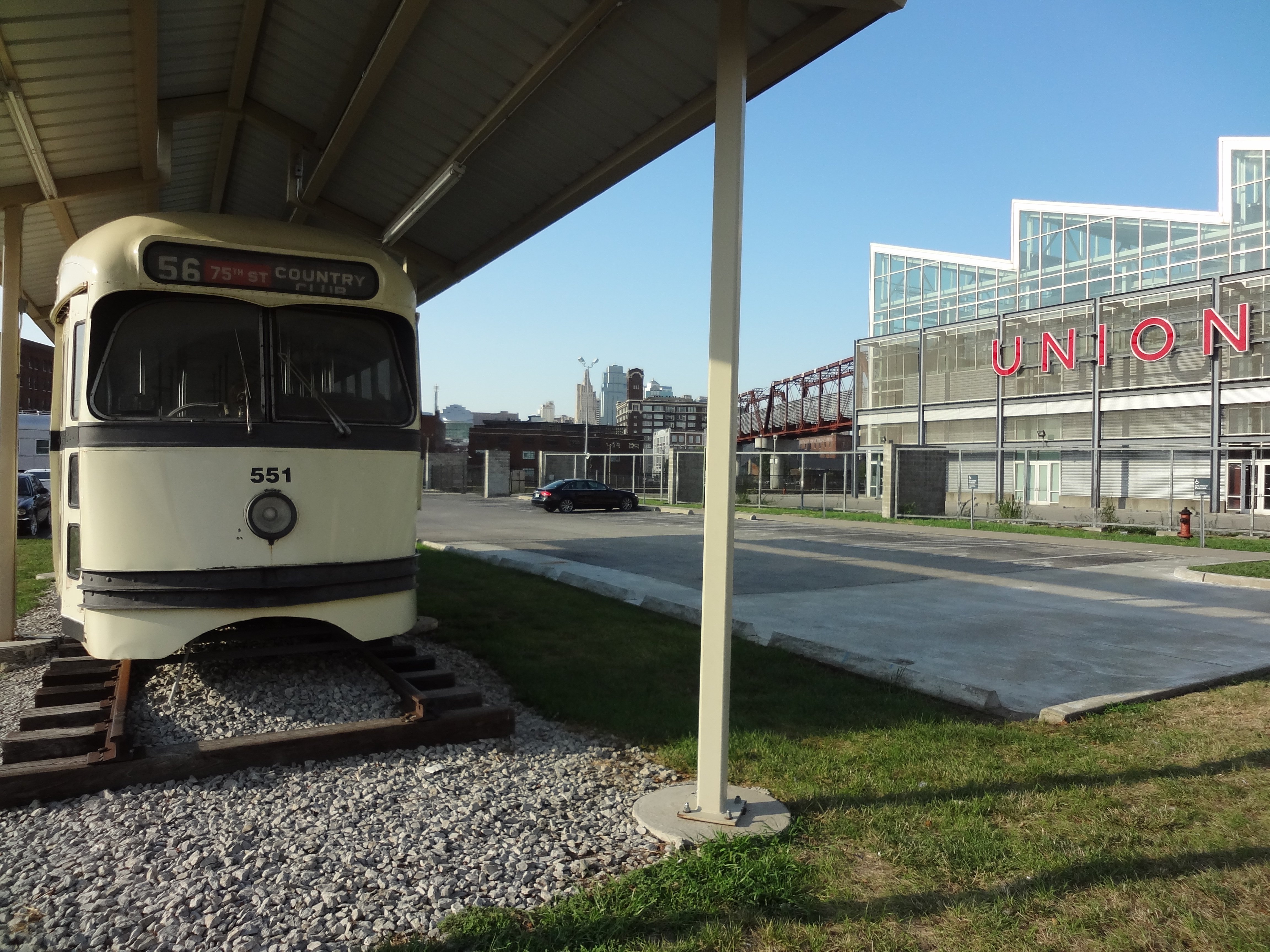 Historic KC Streetcar